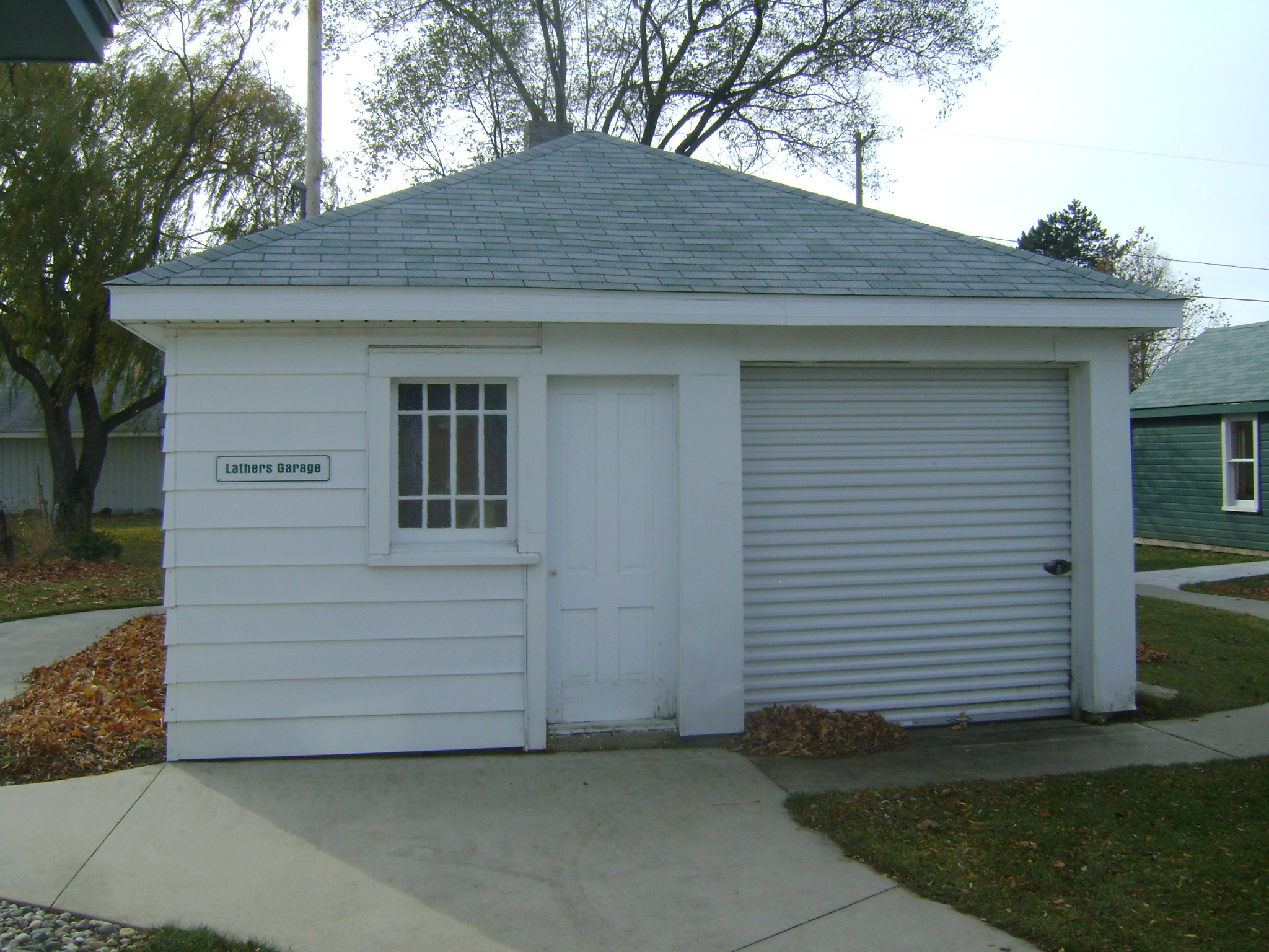 The garage that belongs to the historical Swift Lathers' home in Mears, Michigan.